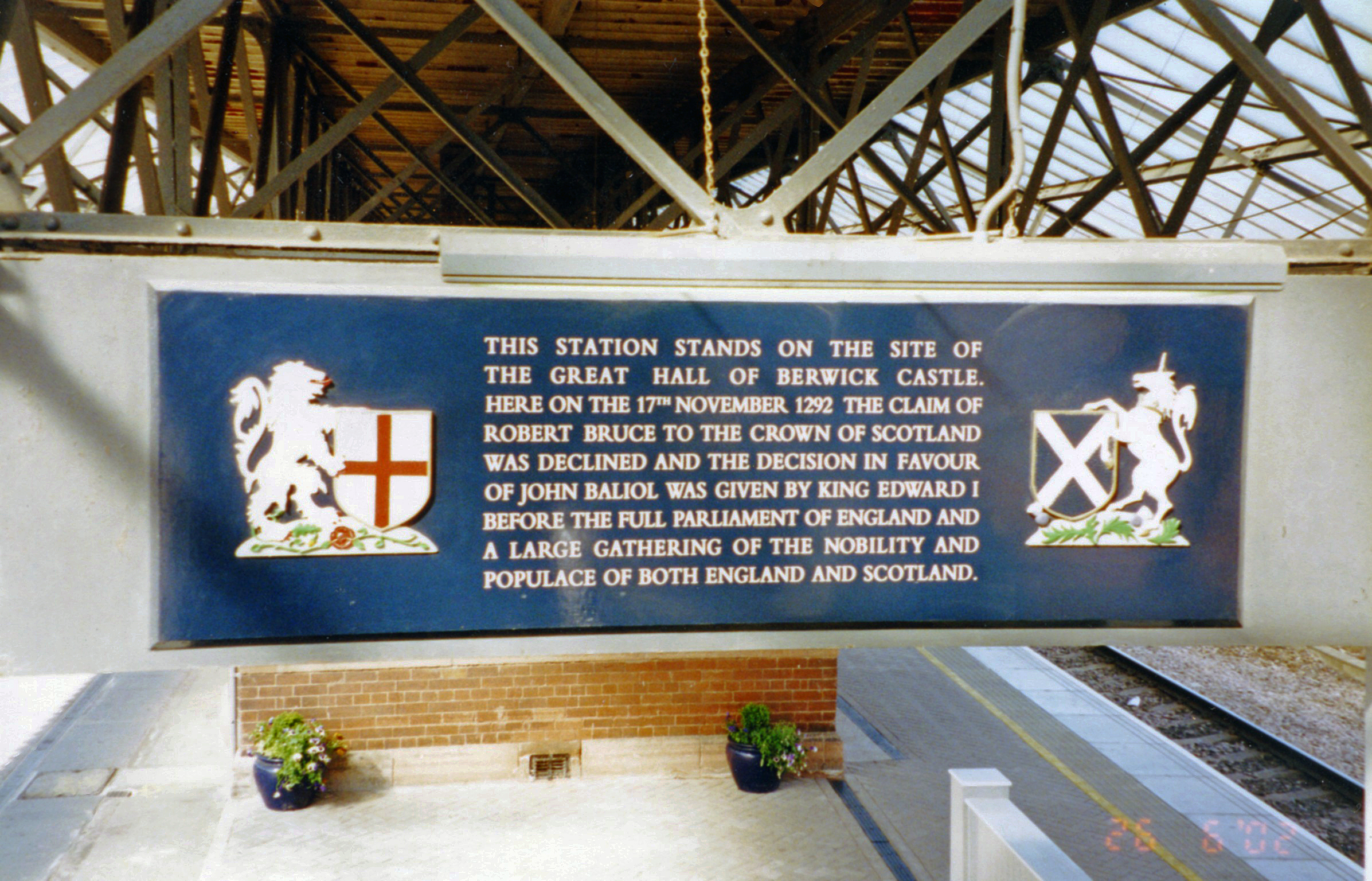 Berwick-upon-Tweed station, commemorative plaque. The plaque on the main (island) platform records a meeting between the King of England (Edward I) and rival Kings of Scotland in 1292, to arbitrate between them. This was held at Berwick Castle, which had been largely demolished when the railway station was built in 1846.